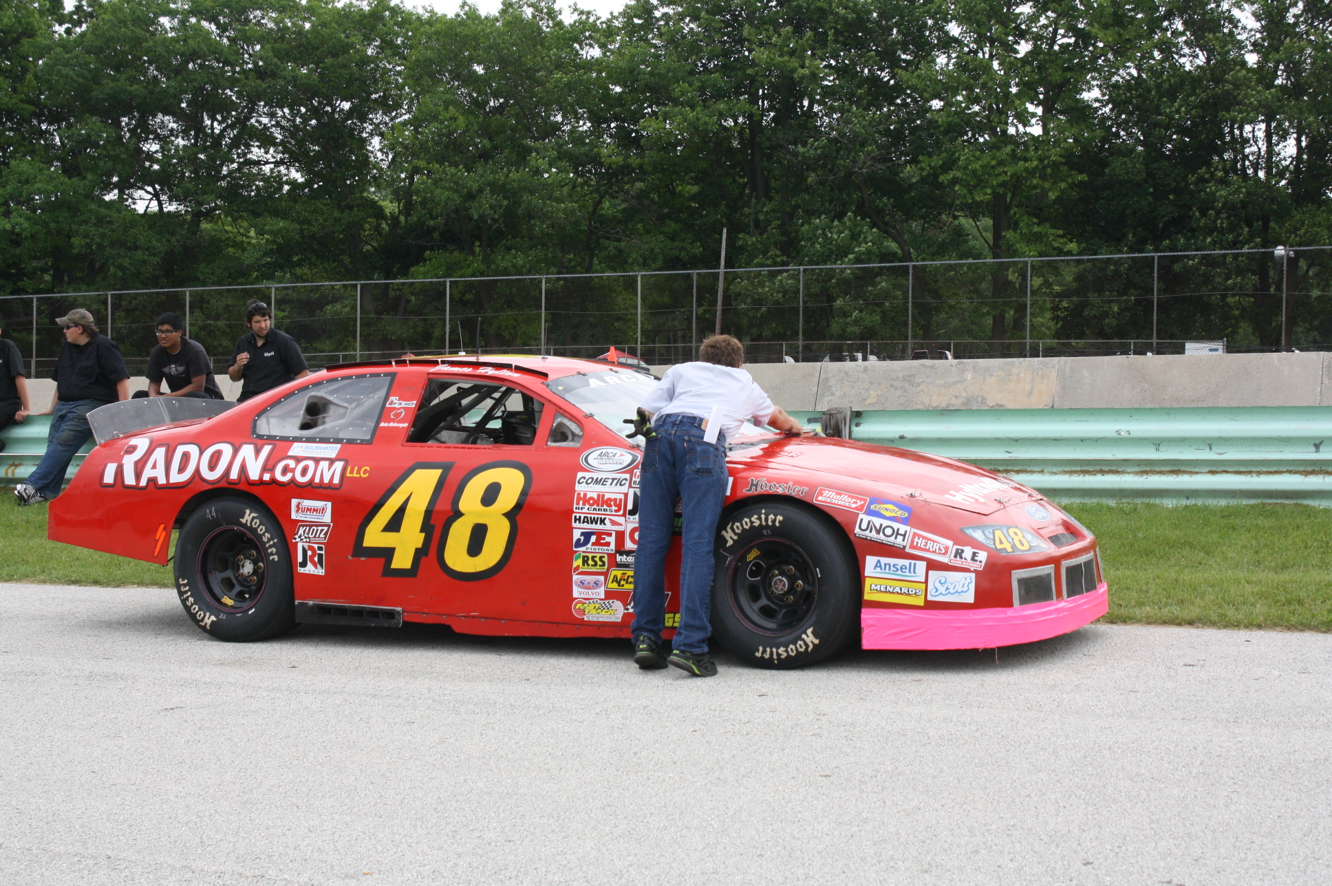 An ARCA inspector (aka scrutineer) checking James Hylton's car before the 2013 Scotts 160.